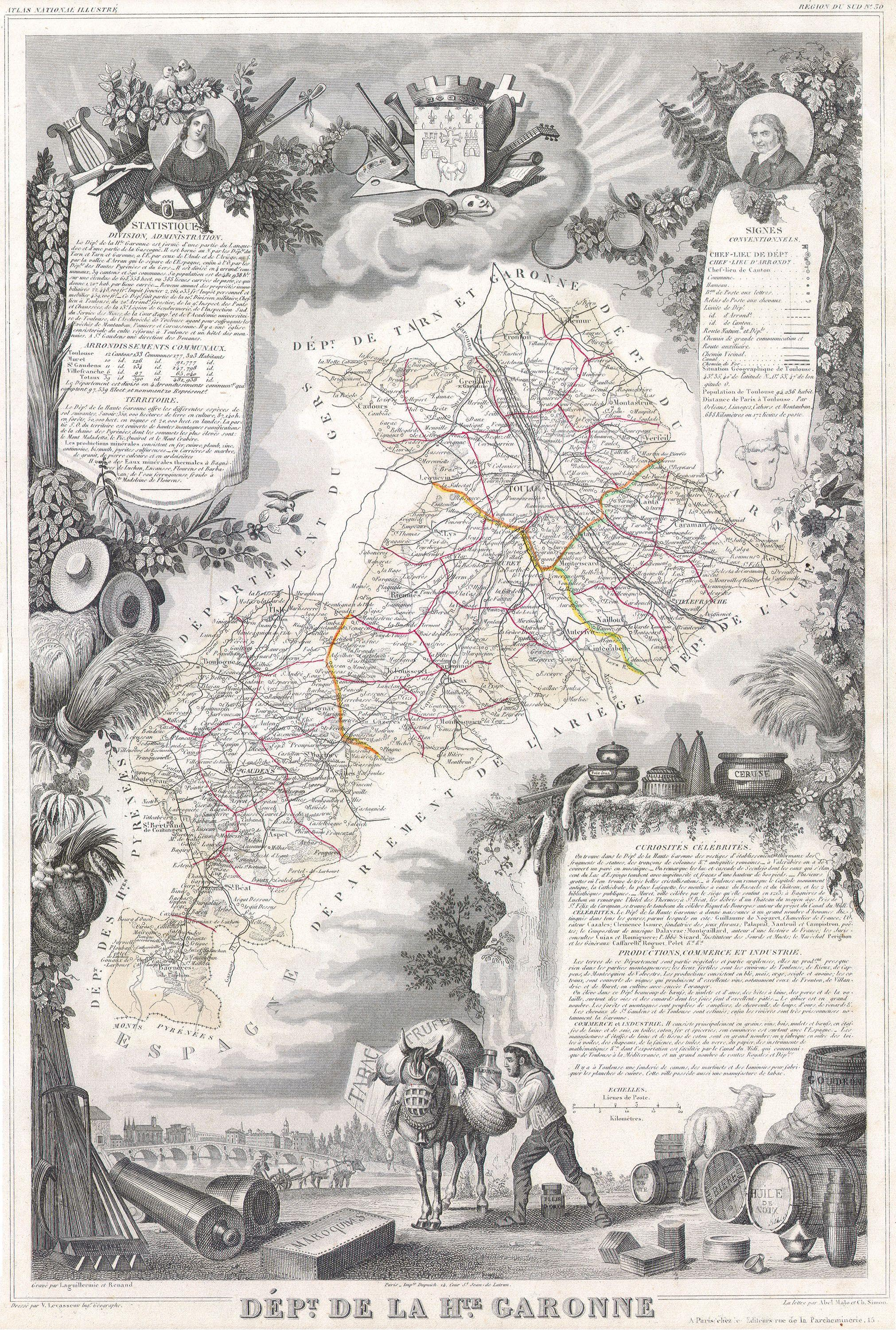 This is a fascinating 1847 map of the Department de la Haute Garonne, France. This region is known for its truffles, agriculture, distilled spirits, wines, and cheese. The capital is Toulouse. This region is also an important stop on the medieval pilgrimage route to Santiago de Compostella. The whole is surrounded by elaborate decorative engravings designed to illustrate both the natural beauty and trade richness of the land. There is a short textual history of the regions depicted on both the left and right sides of the map.